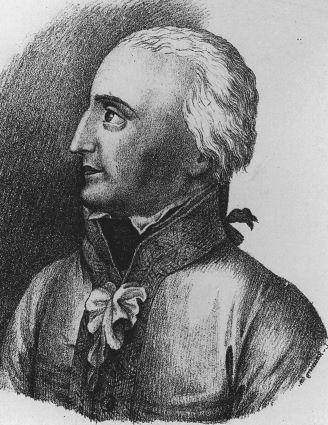 1/4 portrait of Johann von Schmitt, Austrian general during the Napoleonic Wars. Altered from original to face left.